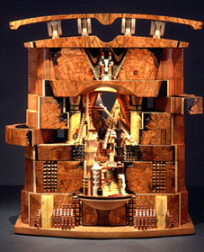 Art Box, image licensed by the artist